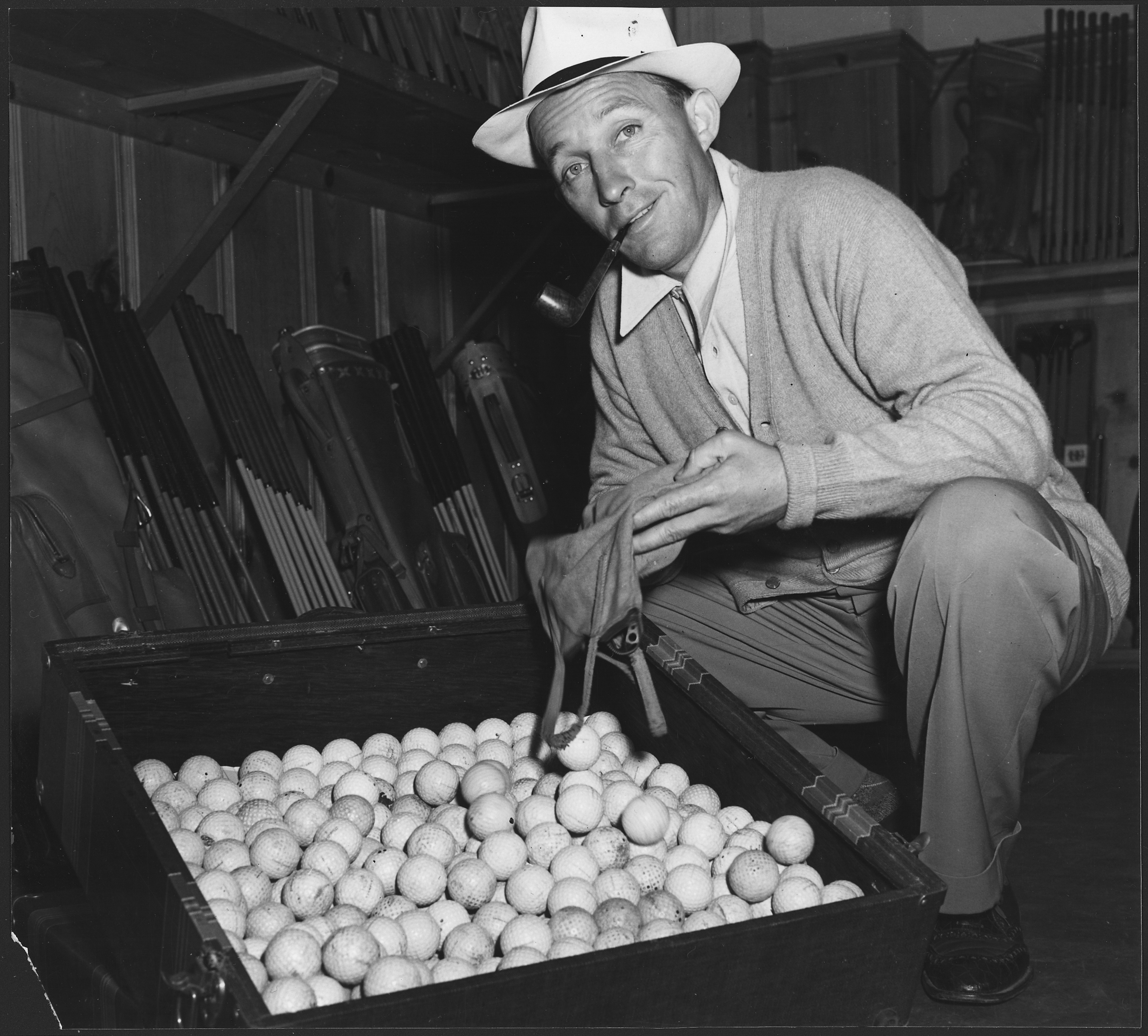 Golfballs for the Scrap Rubber Drive during World War Two